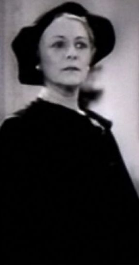 Screenshot of Nella Walker from the trailer for the film Going Highbrow